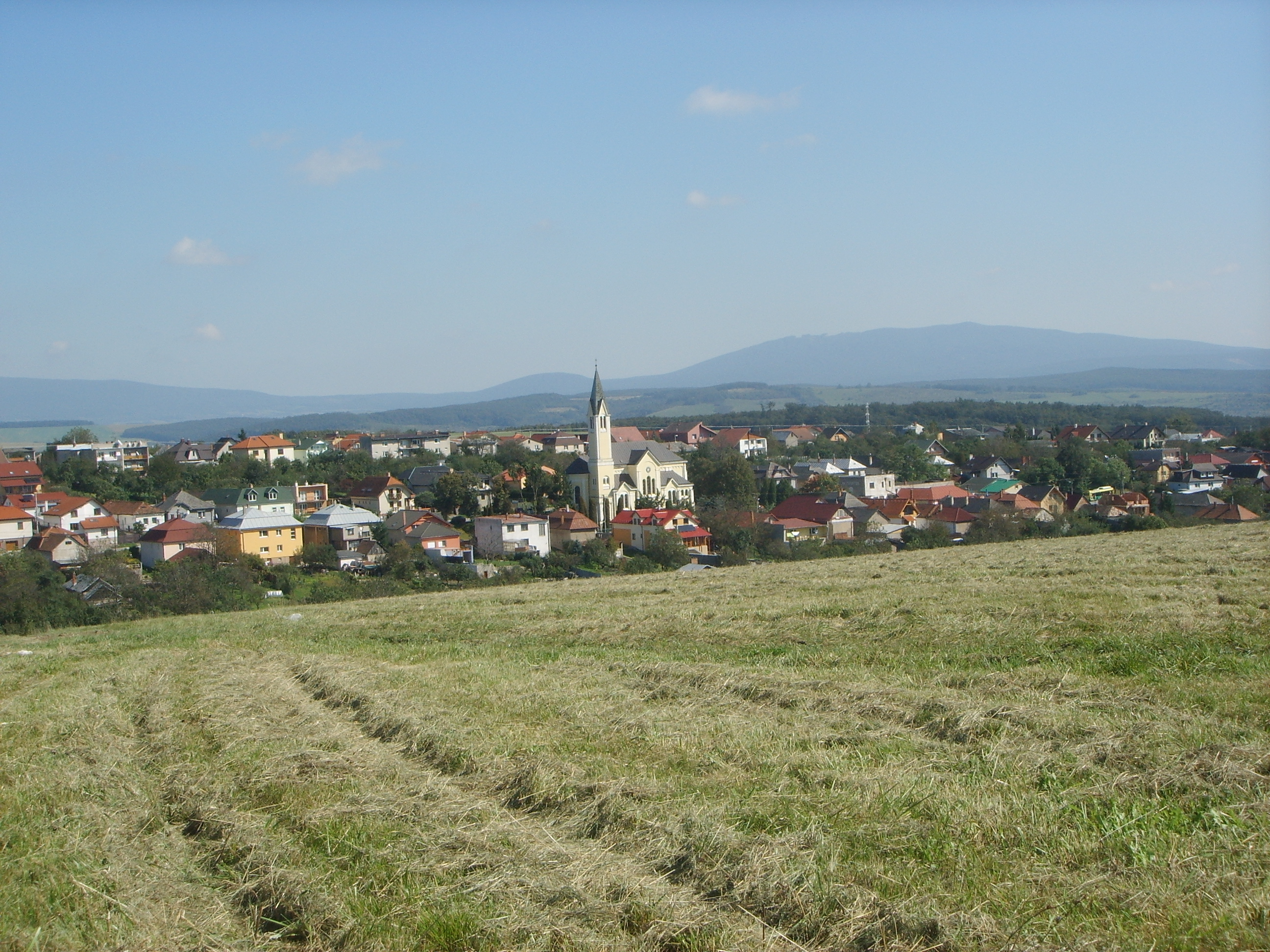 Košická Nová Ves general view